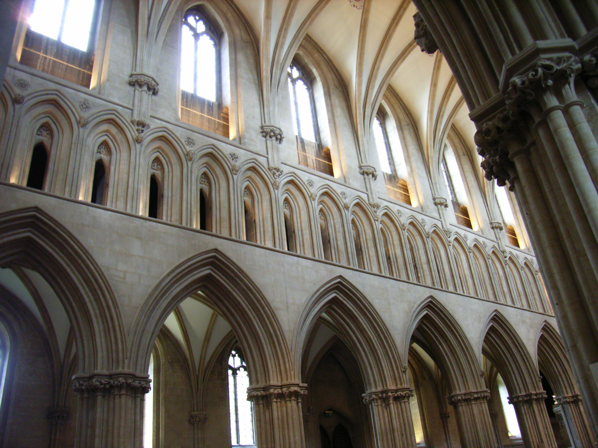 Wells Cathedral inside wall